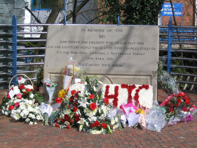 Hillsborough Memorial The memorial, outside the Sheffield Wednesday ground, of the 96 Liverpool supporters who died there 18 years previously.